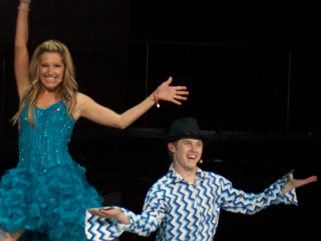 Bop to the Top